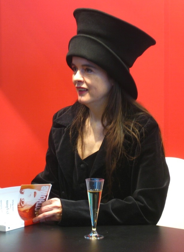 Amélie Nothomb dedicating a book during the Salon du Livre de Paris, the 14th of March 2009